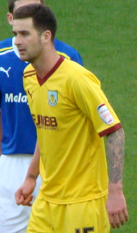 Cardiff v Burnley on 18/03/2012